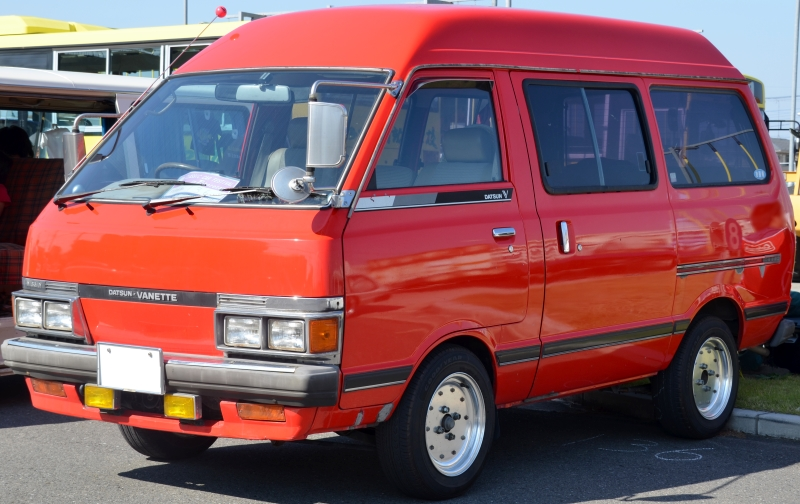 Datsun Vanette Coach